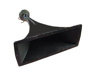 Mid-range horn driver loudspeaker, Klipsch K400, used in home speaker systems. This is called a sectoral horn.